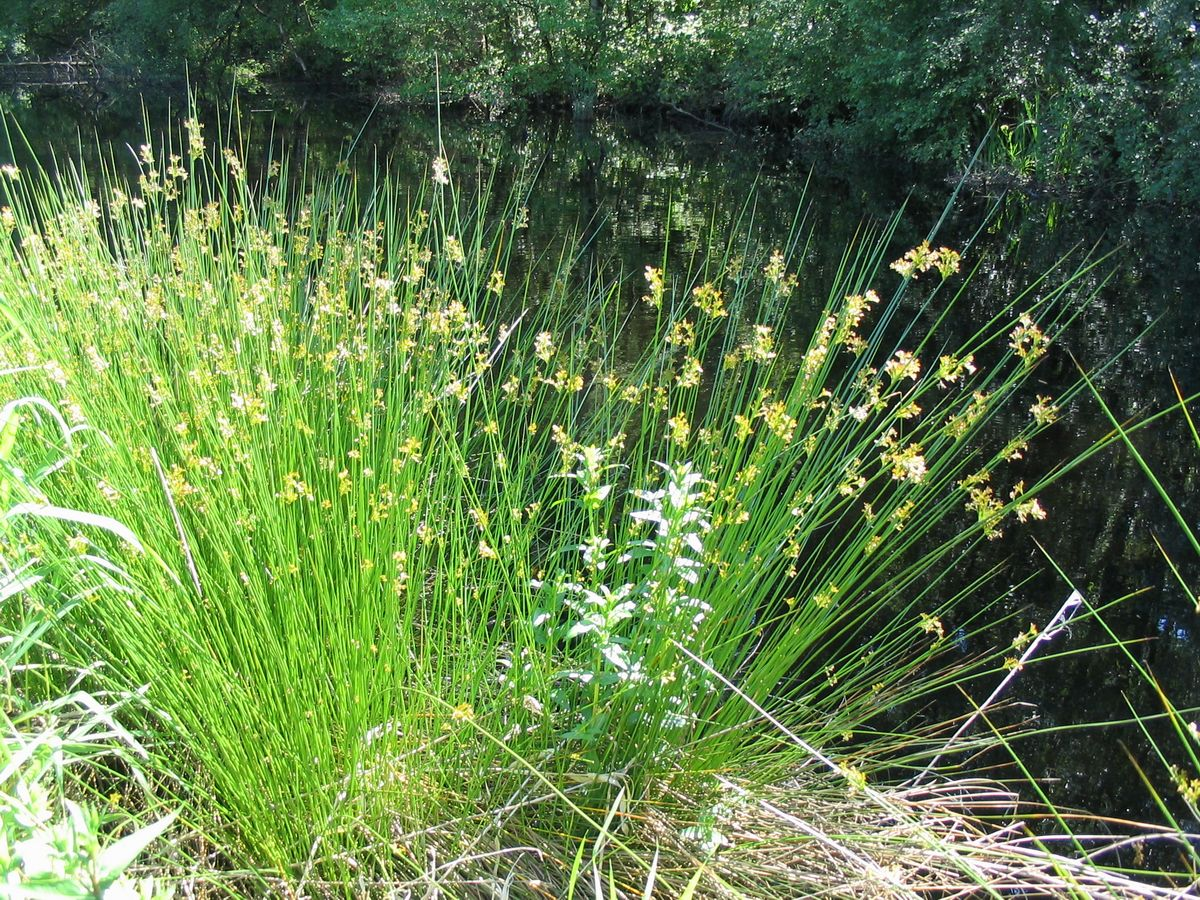 photo by Meggar